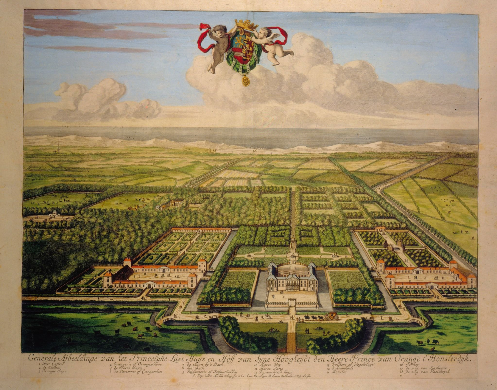 Paleis Honselaarsdijk build between 1621 and 1647, in order of Frederick Henry.